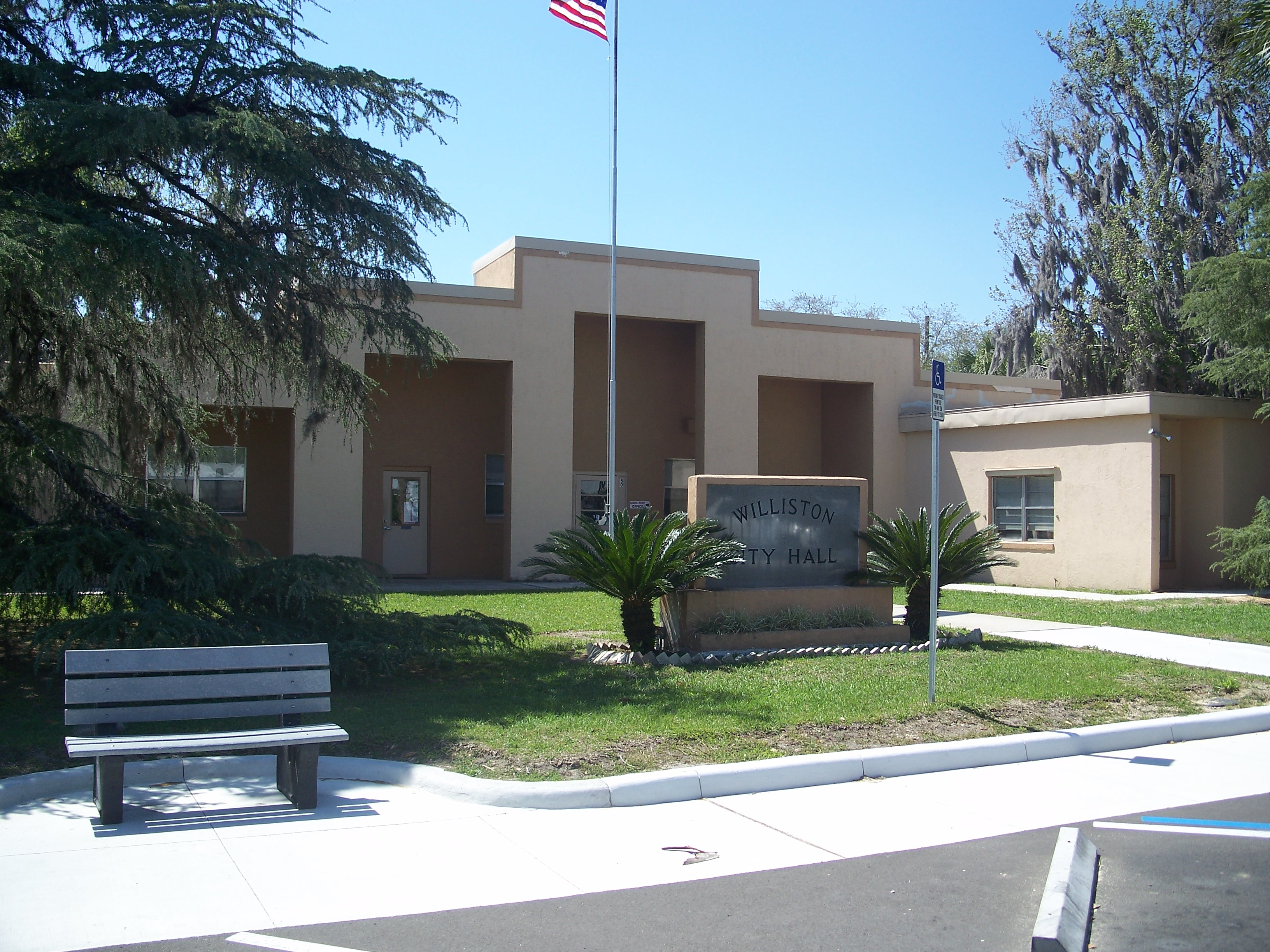 Williston: City hall